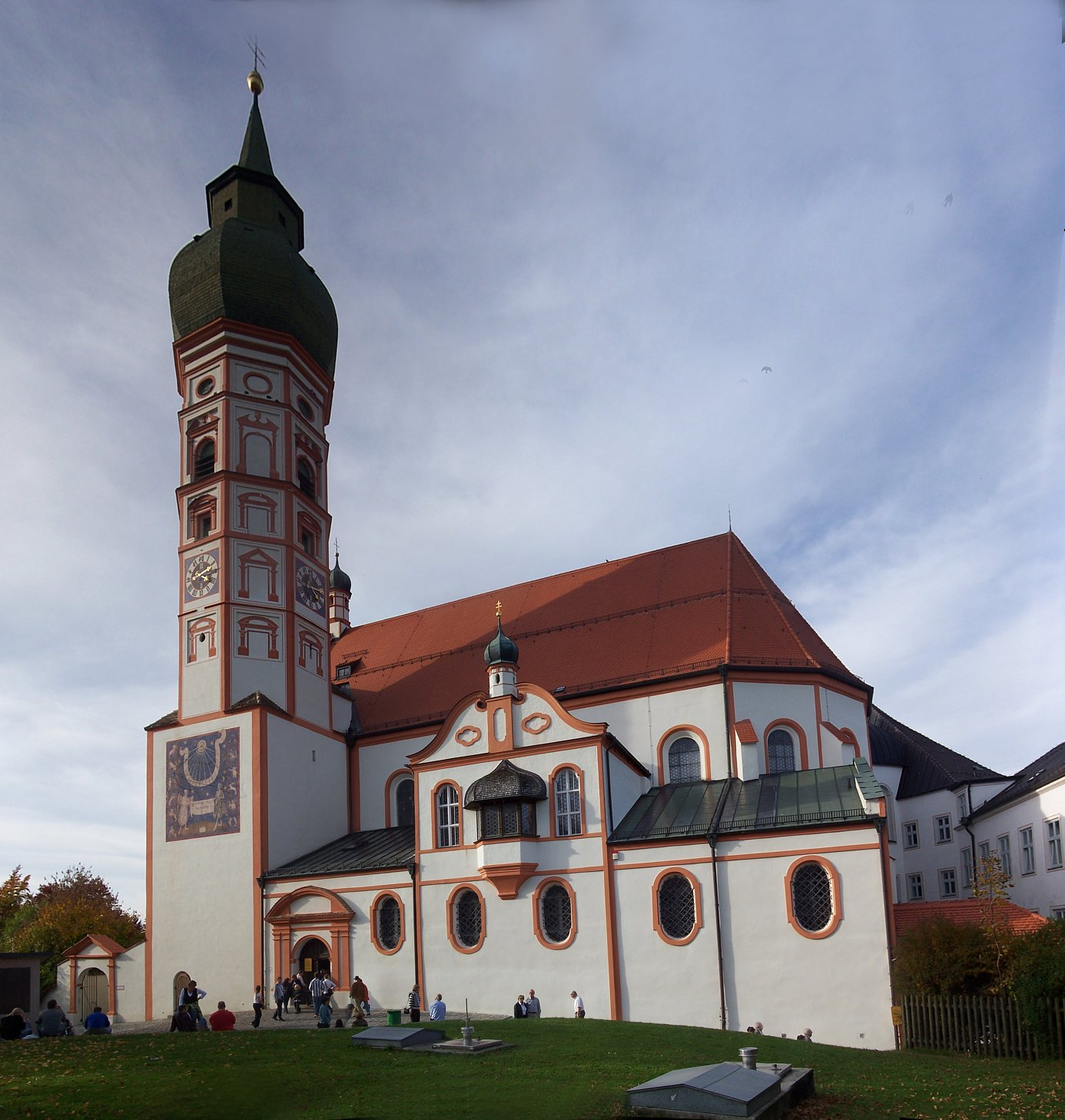 Andechs Abbey